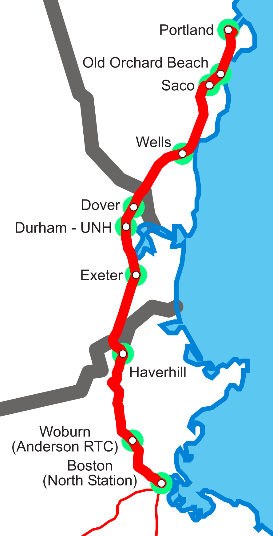 Map of Amtrak's Downeaster service prior to expansion to Brunswick